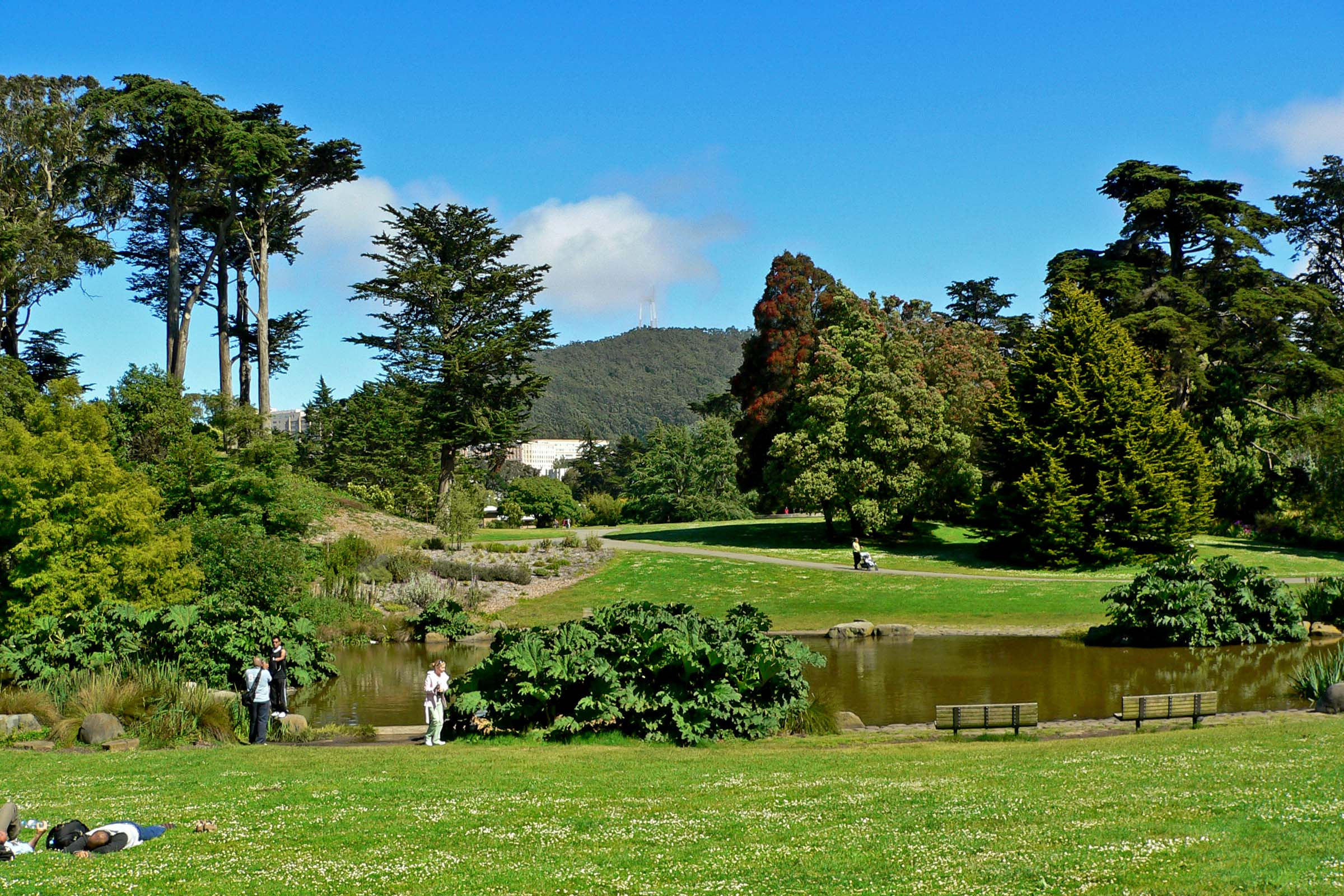 Photo of San Francisco Botanical Garden "Great Lawn"